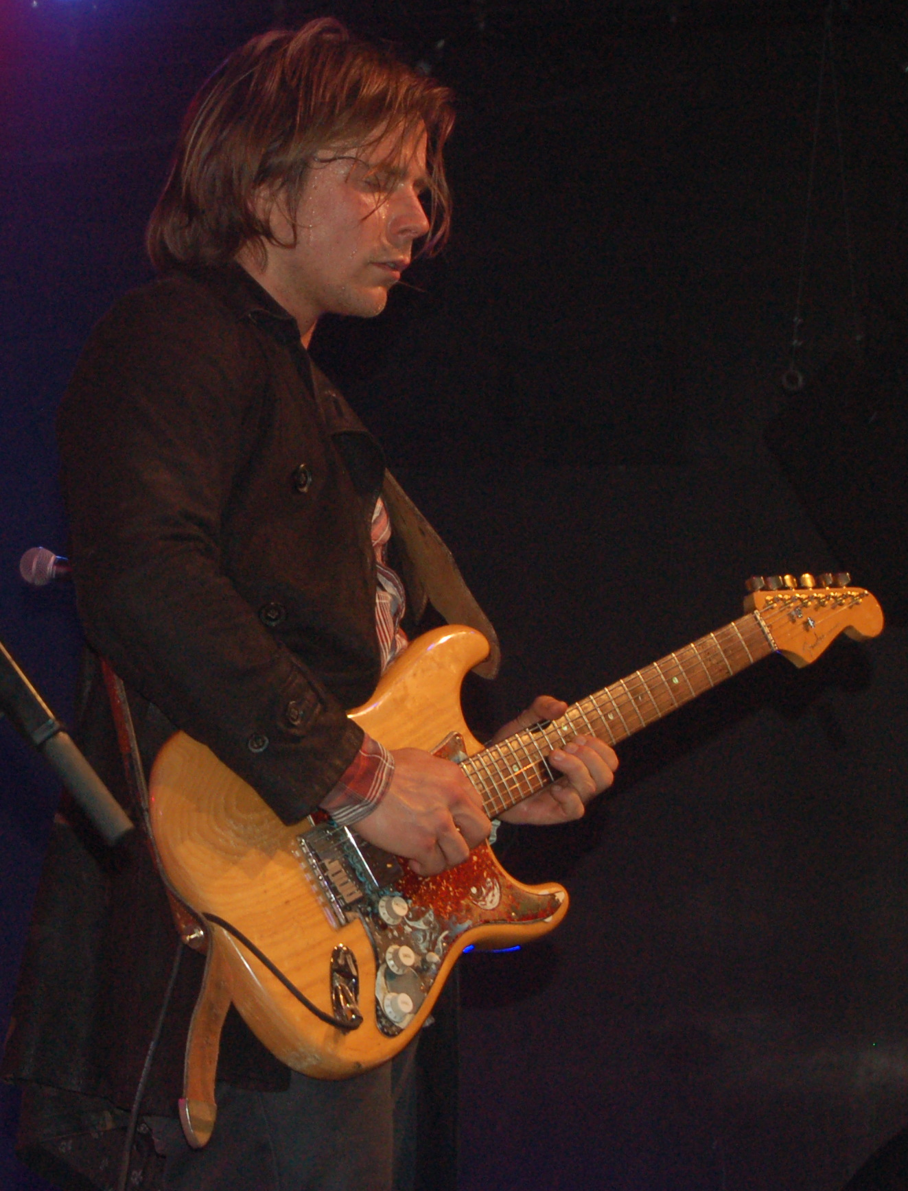 Brothers